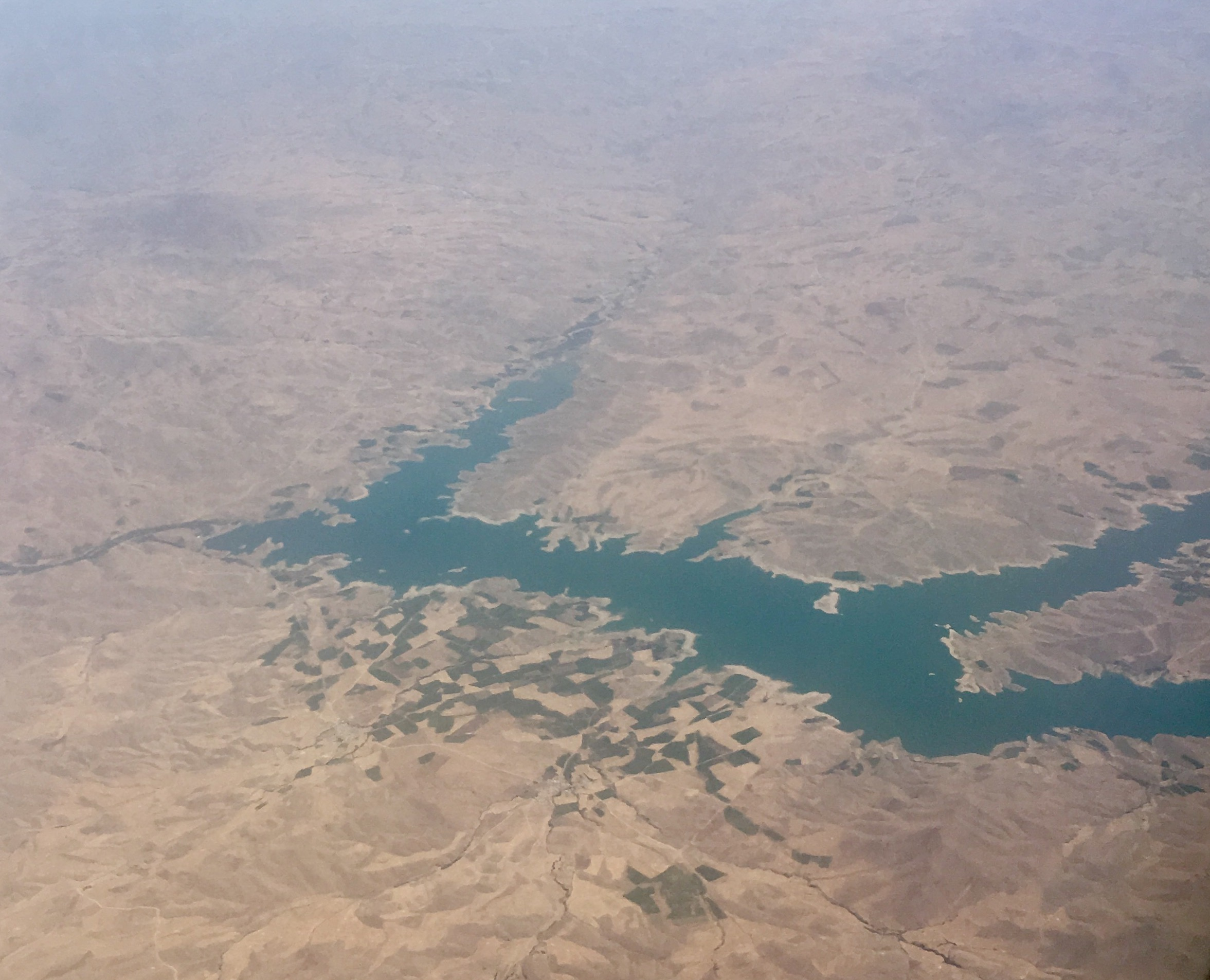 Kazemi dam. Kurdistan province, Iran. Looking from